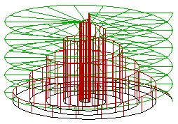 A helix and an Archimedean spiral, combined to form a conic helix.